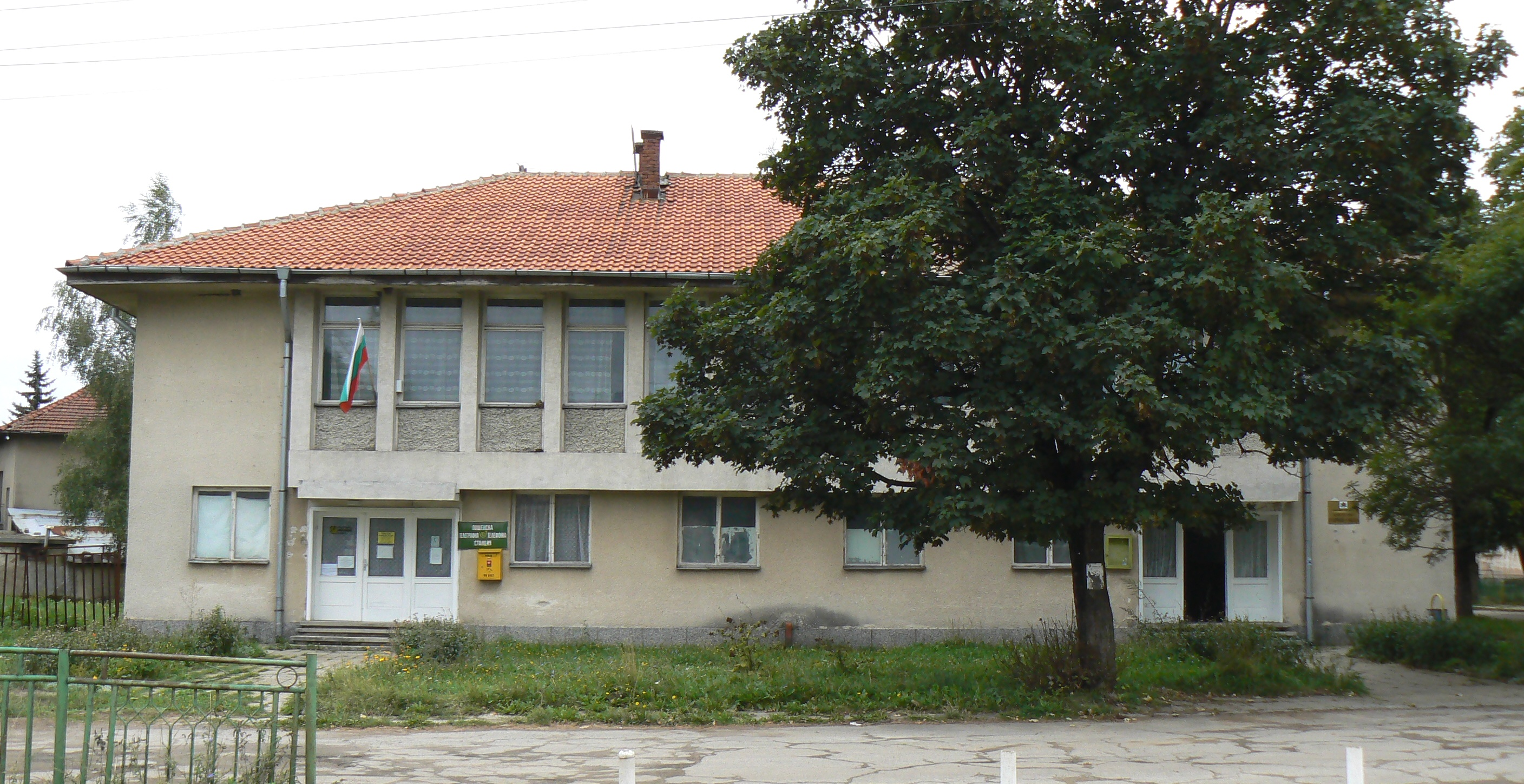 Mayor's office and post office of village Gorni Okol, Bulgaria